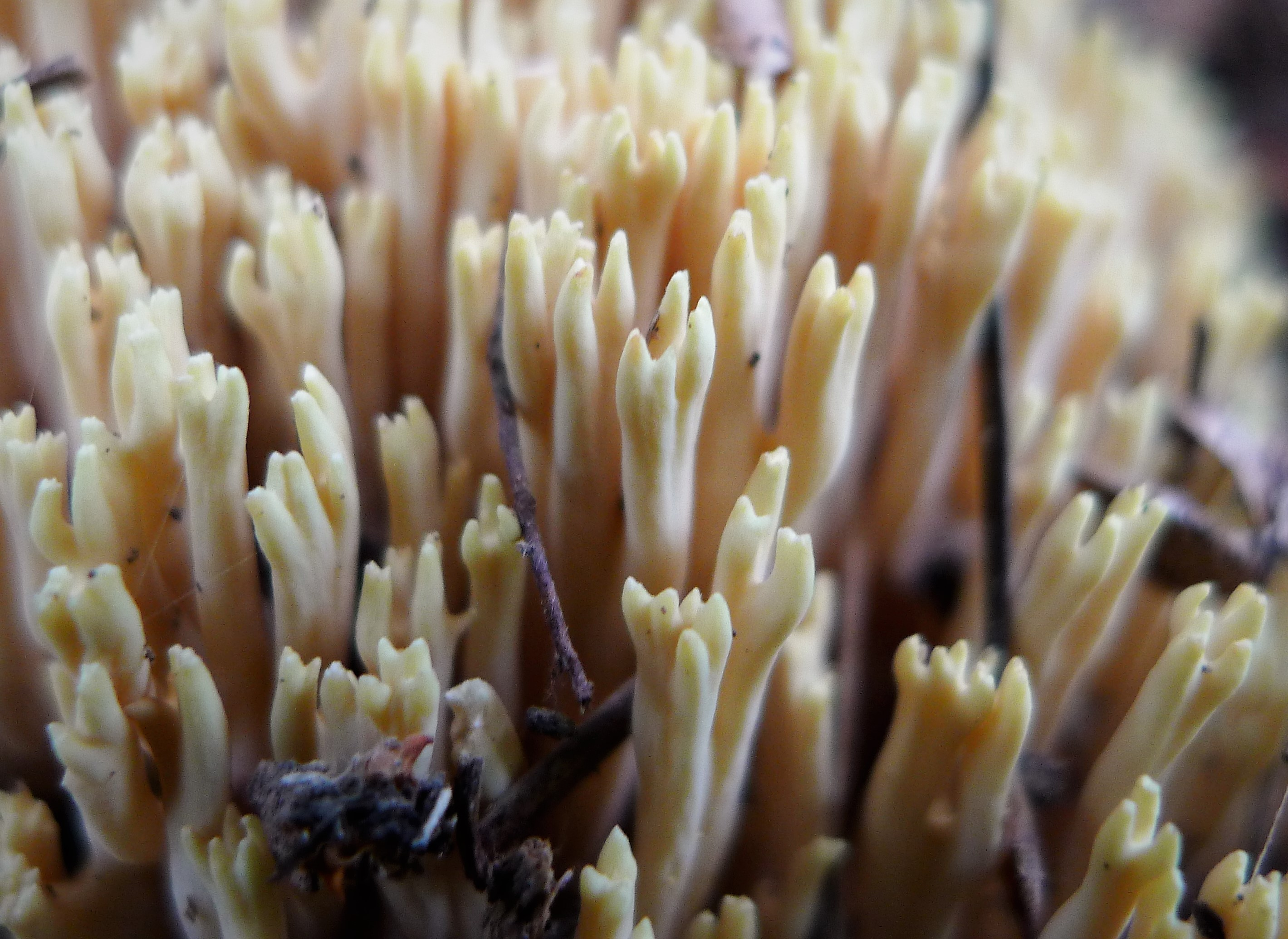 SO557146. Forest of Dean Gloucestershire